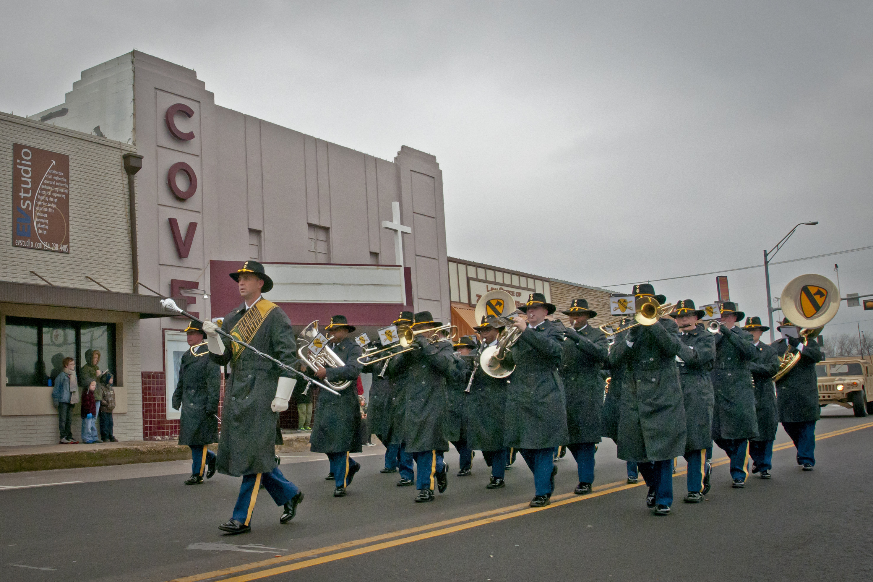 The 1st Cavalry Division Band marches down Avenue D in Copperas Cove during the Children's Christmas Parade, Dec. 14, 2013. The parade is sponsored by the Armed Forces YMCA of Copperas Cove. (U.S. Army photo by Sgt. Ken Scar, 7th Mobile Public Affairs Detachment)